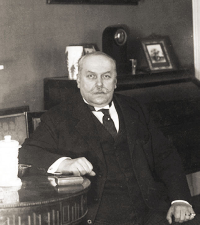 Józef Wierusz-Kowalski (1866-1927) Polish scientist and diplomat.